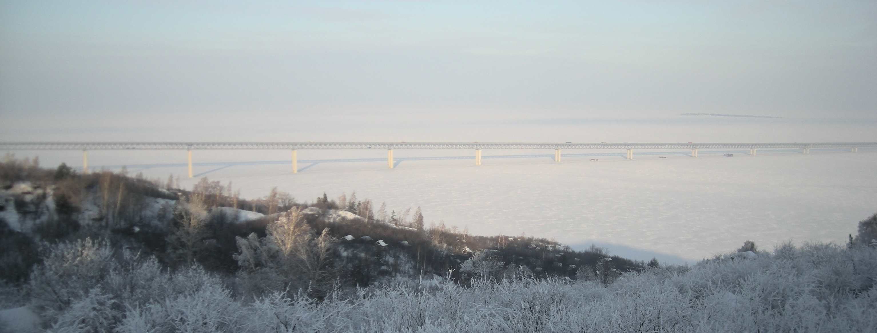 The New Ulyanovsk Bridge.